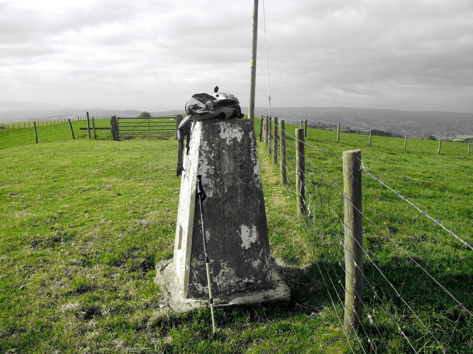 The summit of Stingwern Hil, near to Manafon, Powys, Great Britain